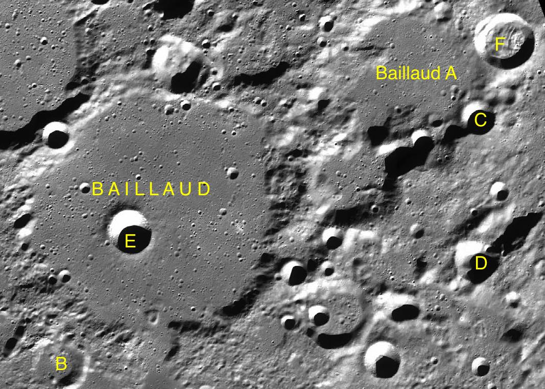 Part of the chart LAC-4 used for the presentation.